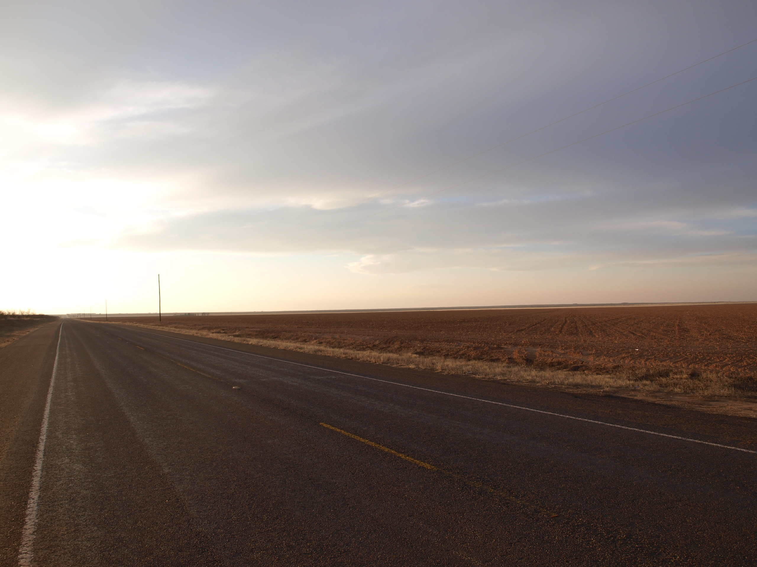 View of a whole lot of nothing from U.S. Route 380